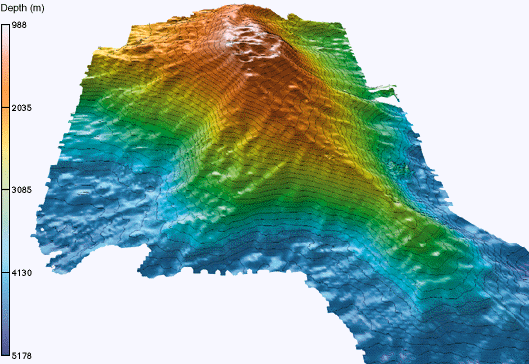 3-D image of Loihi seamount after the collapse of the peak, obtained from R/V Ka'imikai-o-Kanaloa SeaBeam bathymetry taken during the LONO cruises.